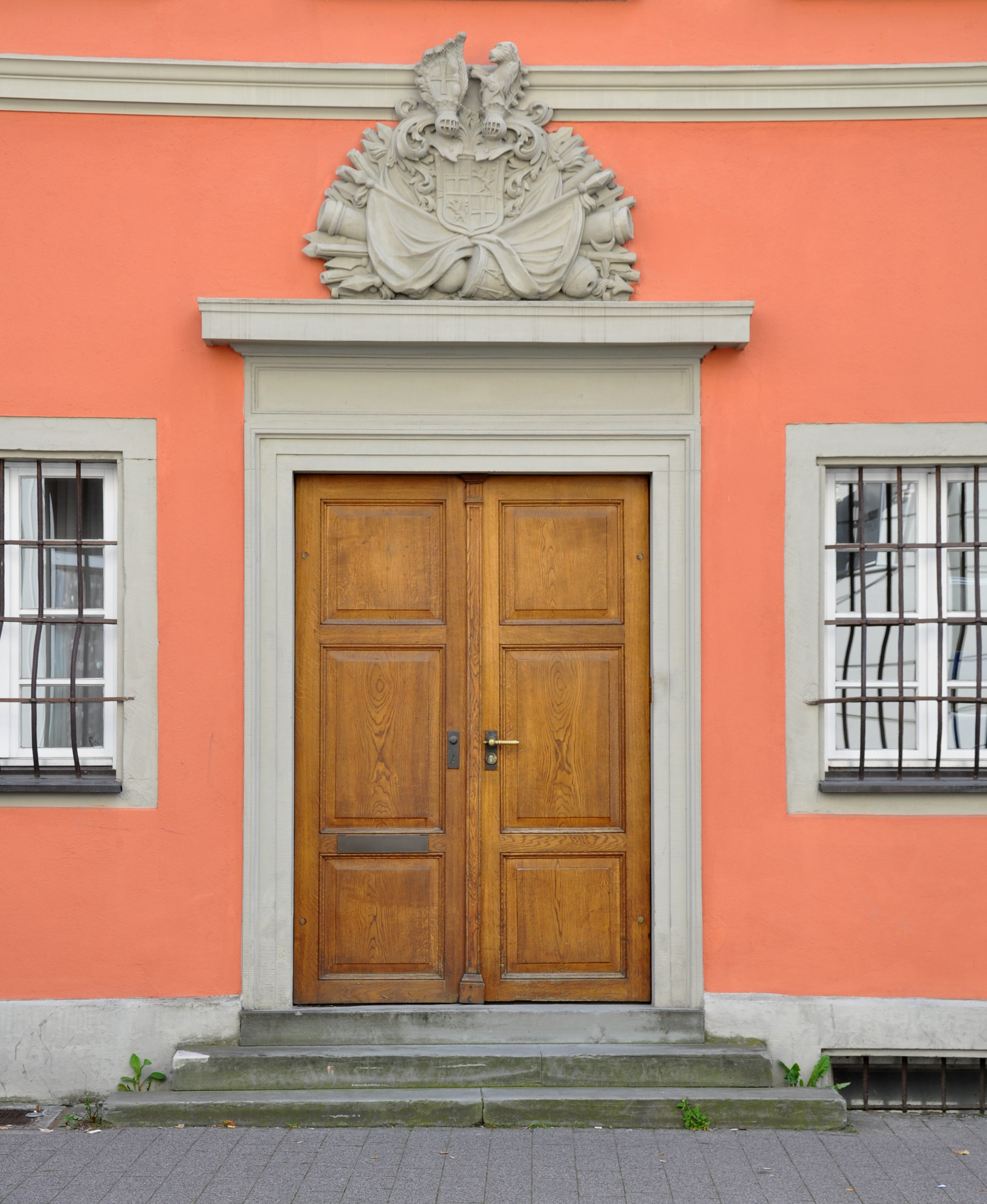 Altshauser Hof, house of the Teutonic Order Commandery Altshausen in the city of Ravensburg, possibly built by Johann Caspar Bagnato; entrance.